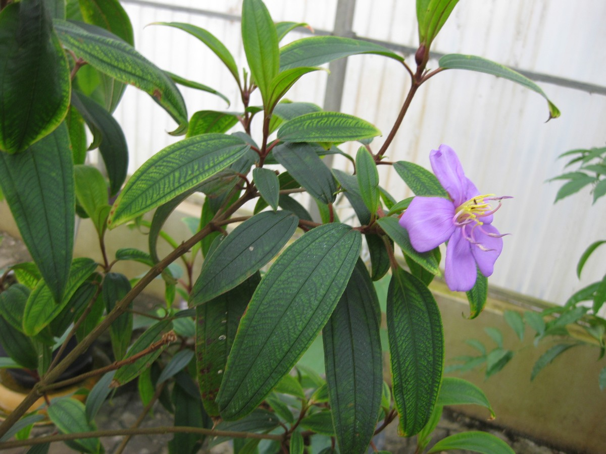 Photographed at the Queen Sirikit Botanic Garden (Chiang Mai Province, Thailand) in March